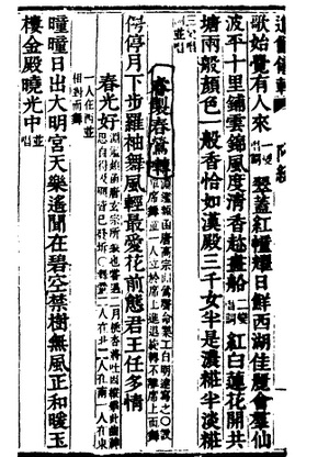 Jinchan Uigwe (1848) (Manual of Royal Banquet of Joseon Dynasty) about the creation of Chunaengjeon, Dance of Spring Nightingale.